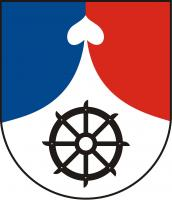 znak obce Lipovec